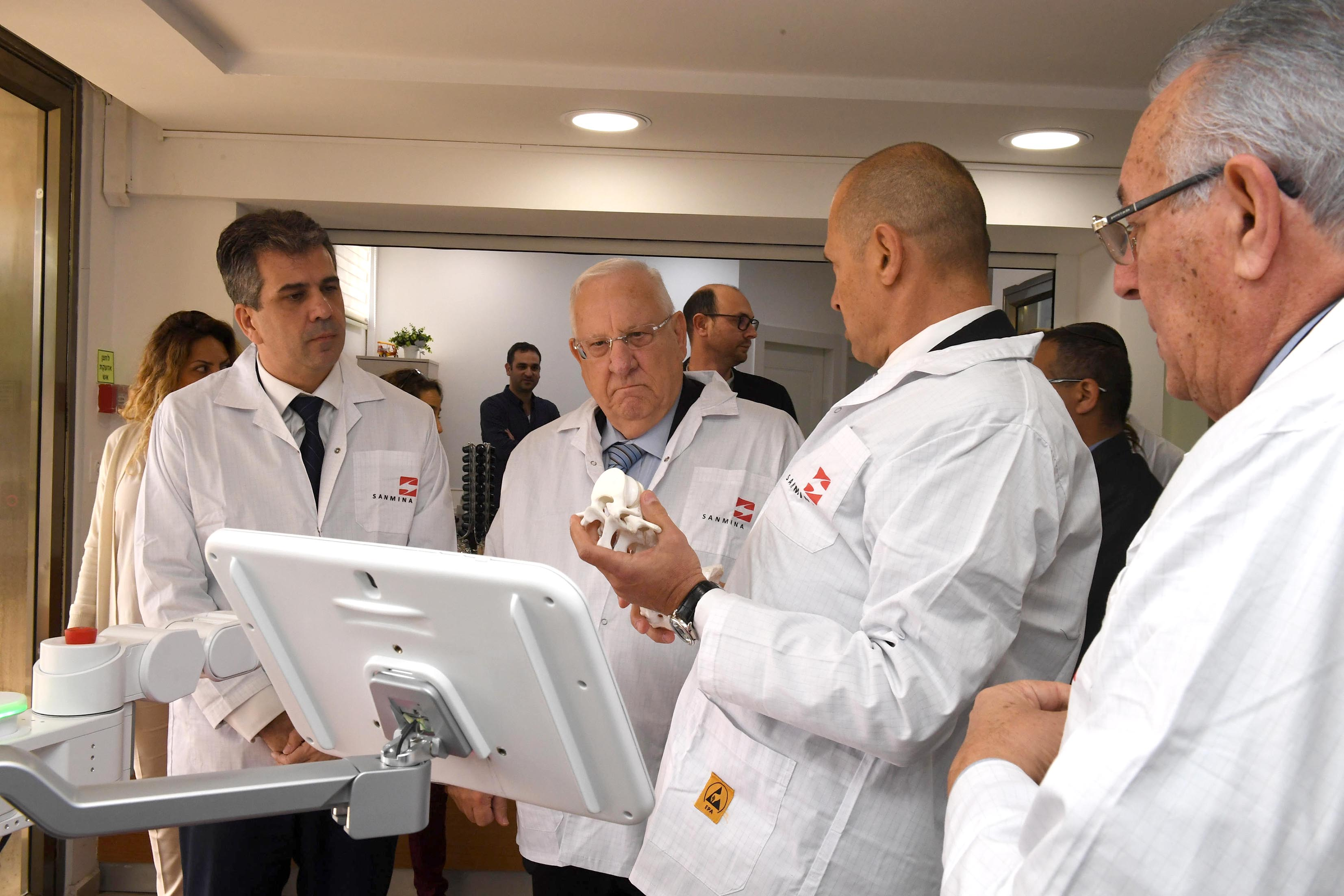 In honor of Israel 70th Independence, the office of the President of Israel, Reuven Rivlin, traveled for the first time from Jerusalem to Maalot-Tarshiha and for a full day the President held his meetings in the city. Tuesday, February 20, 2018. Photo Credit: Mark Neiman / GPO.